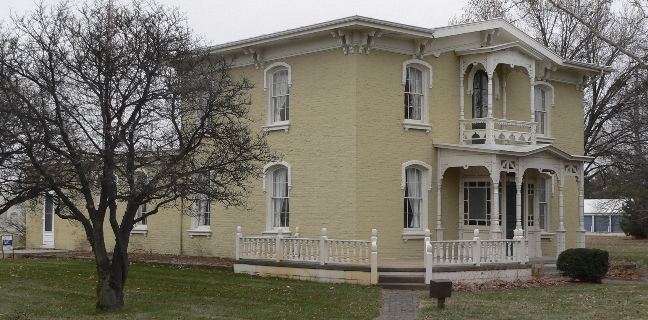 George and Nancy Turner house, located at 78 S. C Street in Fremont, Nebraska; seen from the northwest.